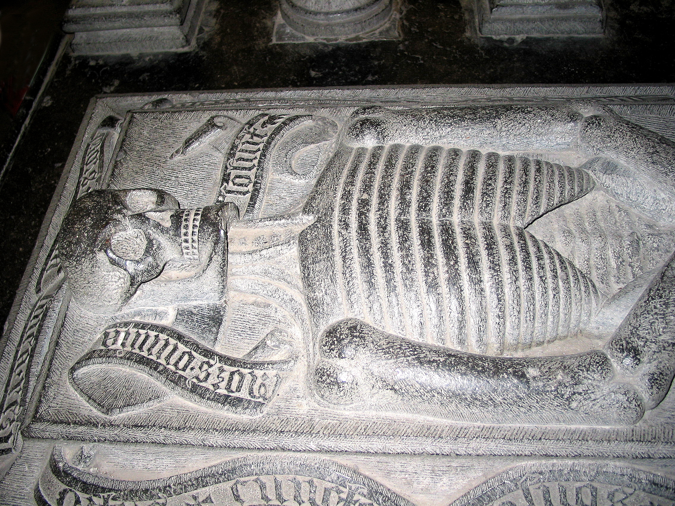 Trazegnies (Belgium), St. Martin church - Low part of the recombent figure of Jean III de Trazegnies and his spouse Isabeau de Werchin (1550).